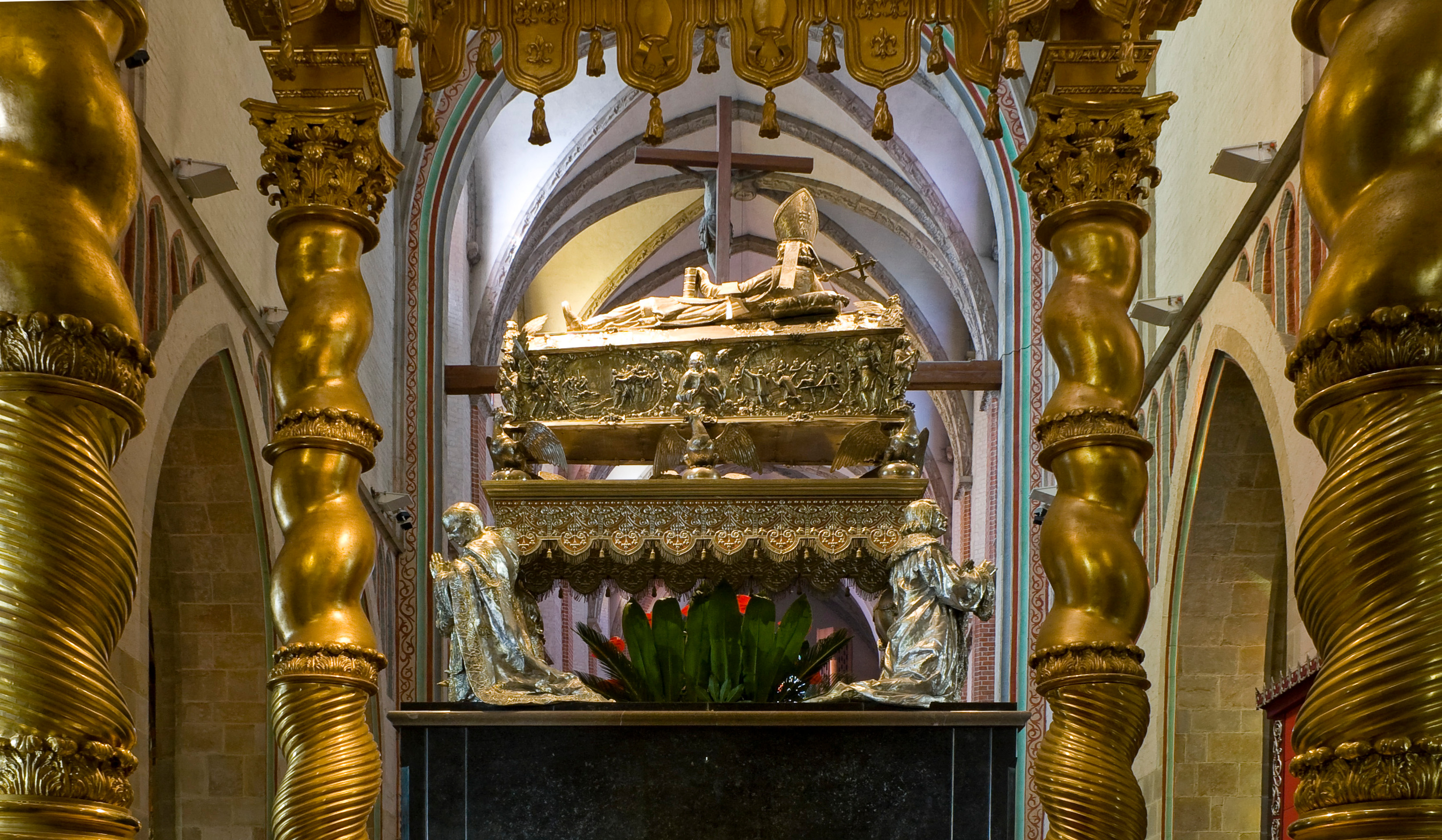 Coffin of Adalbert of Prague, Gniezno Cathedral, Gniezno, Poland